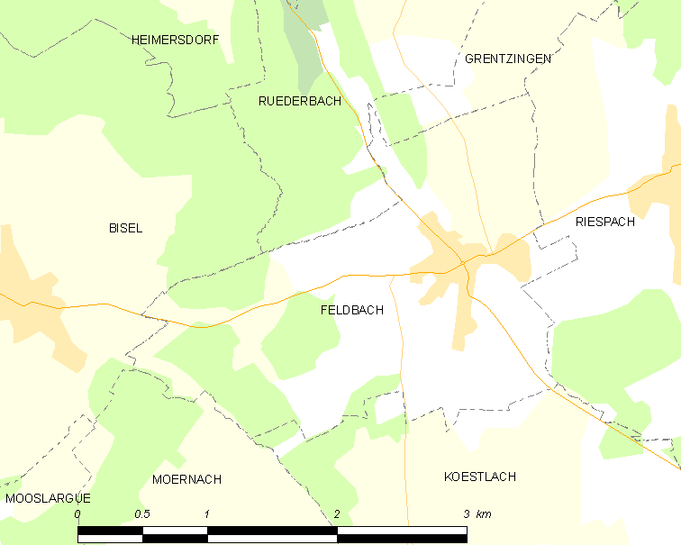 Map of French municipality